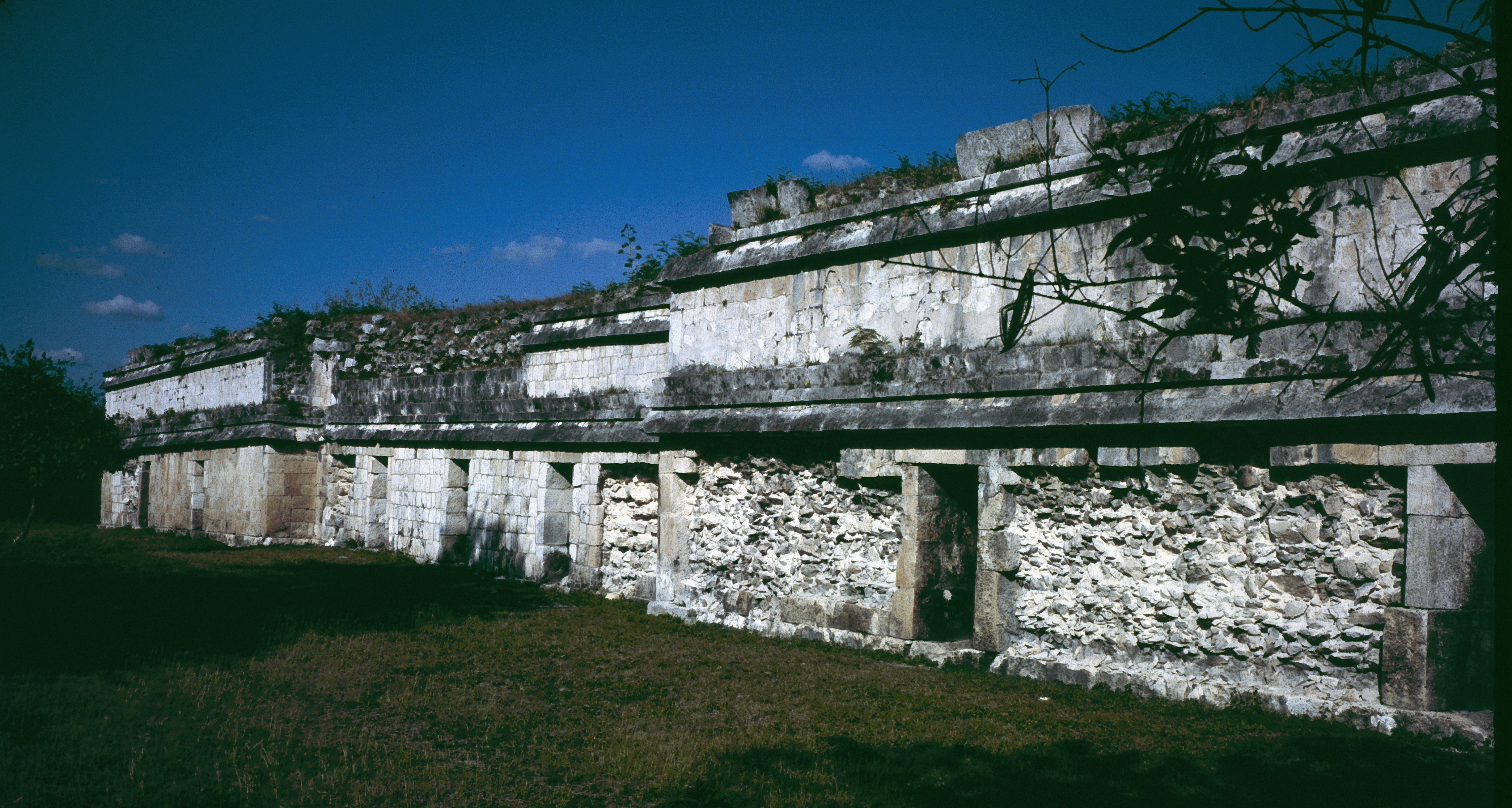 Chichen Itza, Yucatan, Mexico: Akab Dzib (south and west sides)